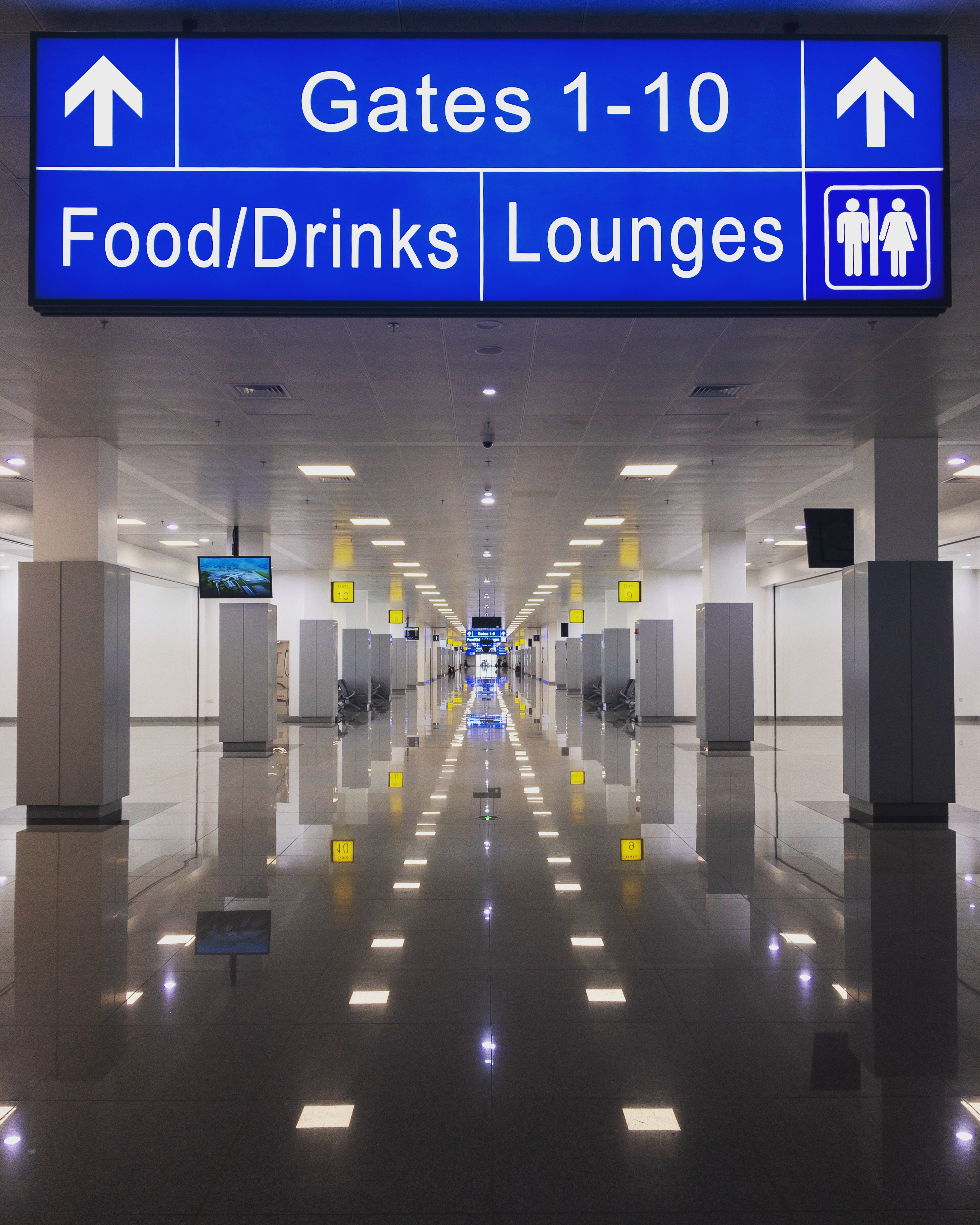 Boarding gates in Nnamdi Azikiwe international airport